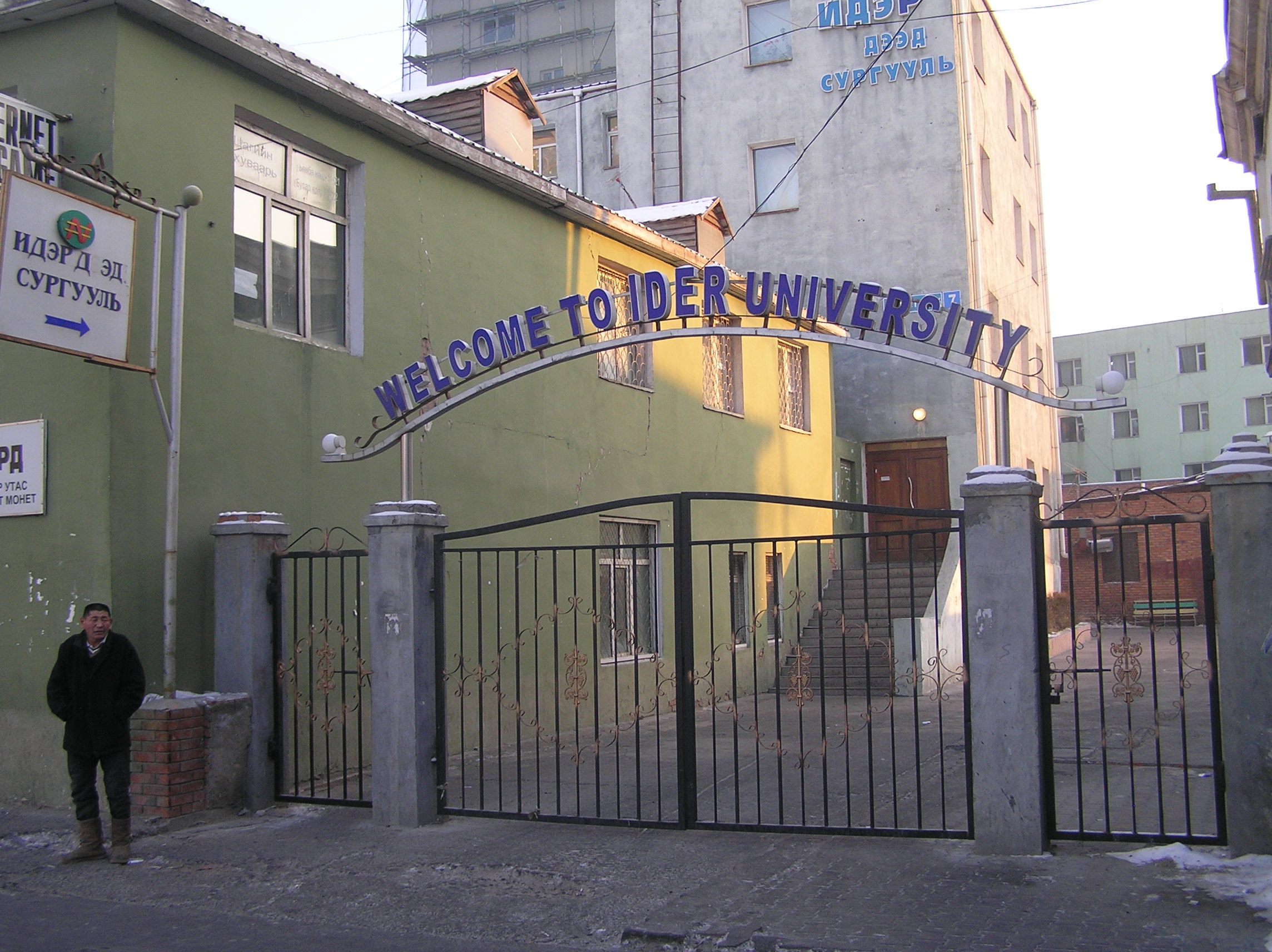 entrance to Ider University, Ulaanbaatar, Mongolia